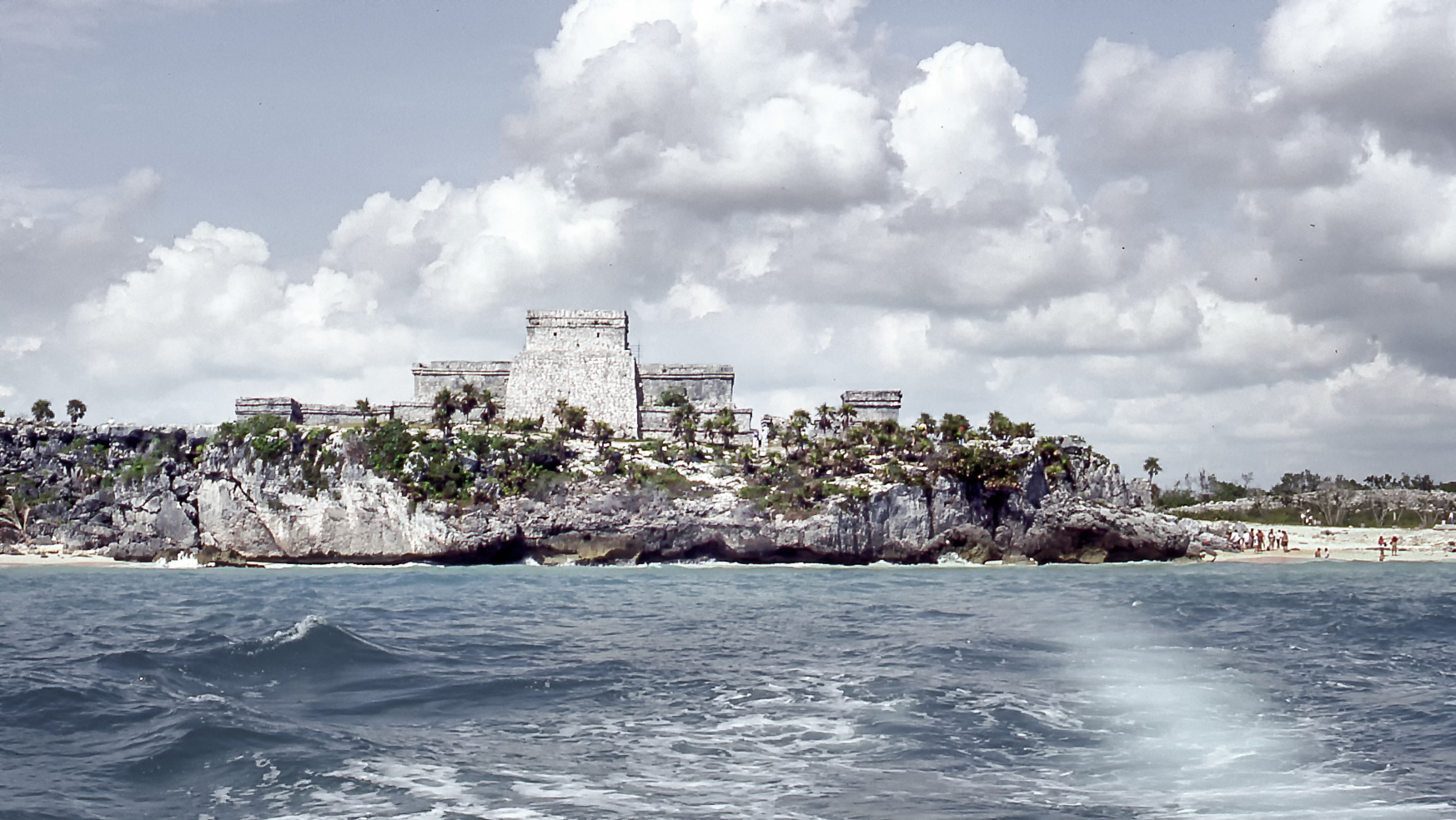 Tulum from seaside